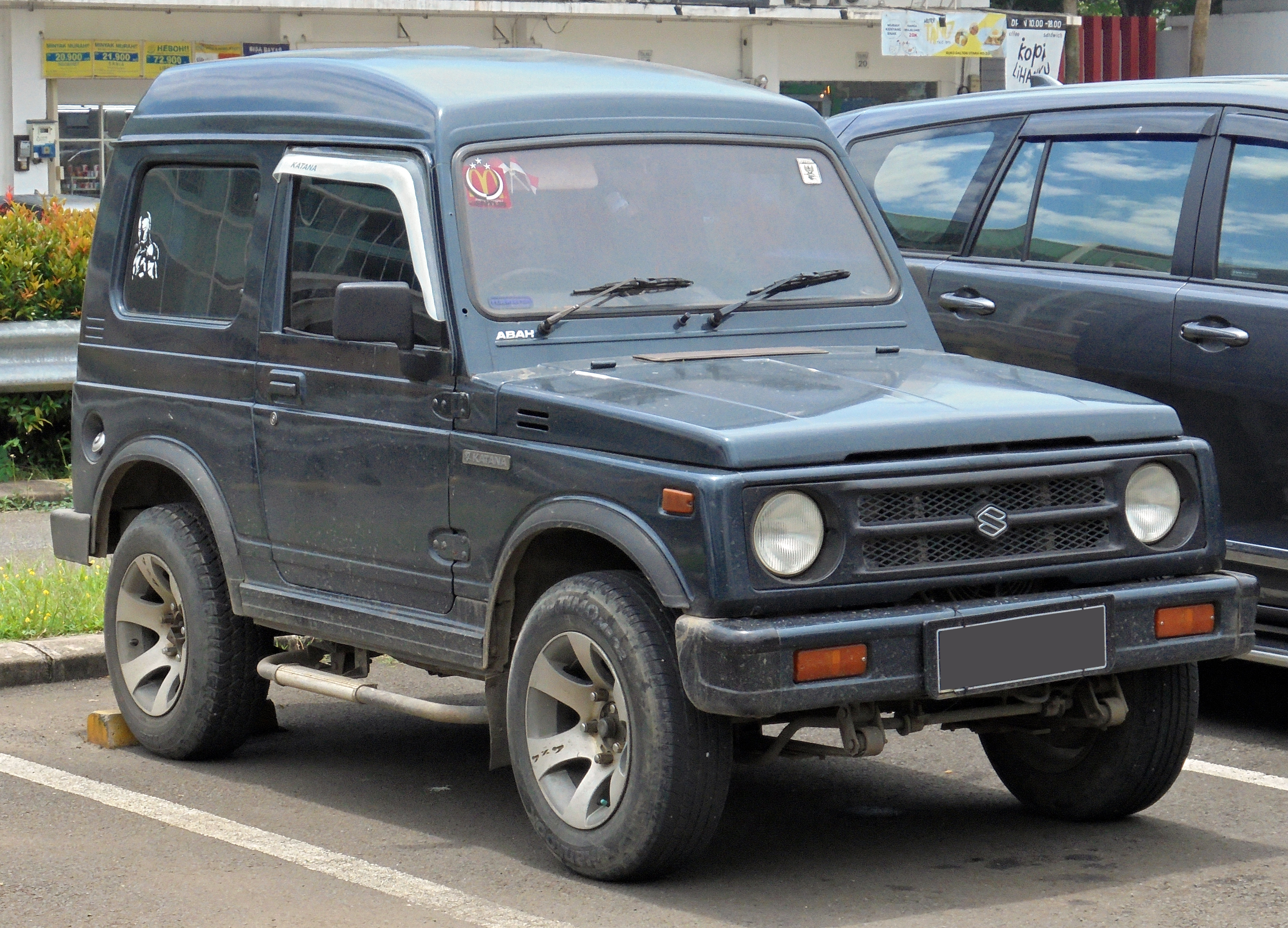 2005 Suzuki Katana GX 4x2 1.0 (SJ410)